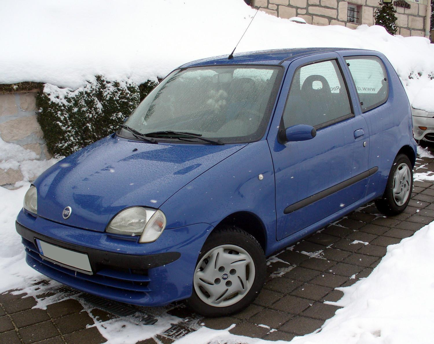 Fiat Seicento car in Germany. Fix It Again Tony.